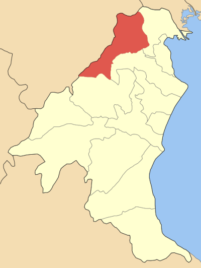 Locator map of Kolindrou municipality (Δήμος Κολινδρού) at Pierias perfecture, Greece.